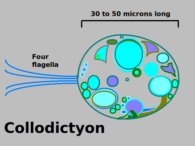 A rough illustration of Collodictyon, a single-celled eukaryote with four flagella for movement, which lives in Lake As, a lake south of Oslo, Norway. According to several reports, Collodictyon may be notable for being "man's remotest relative", and further study may yield insights into the prehistoric beginnings of man hundreds of millions of years ago.